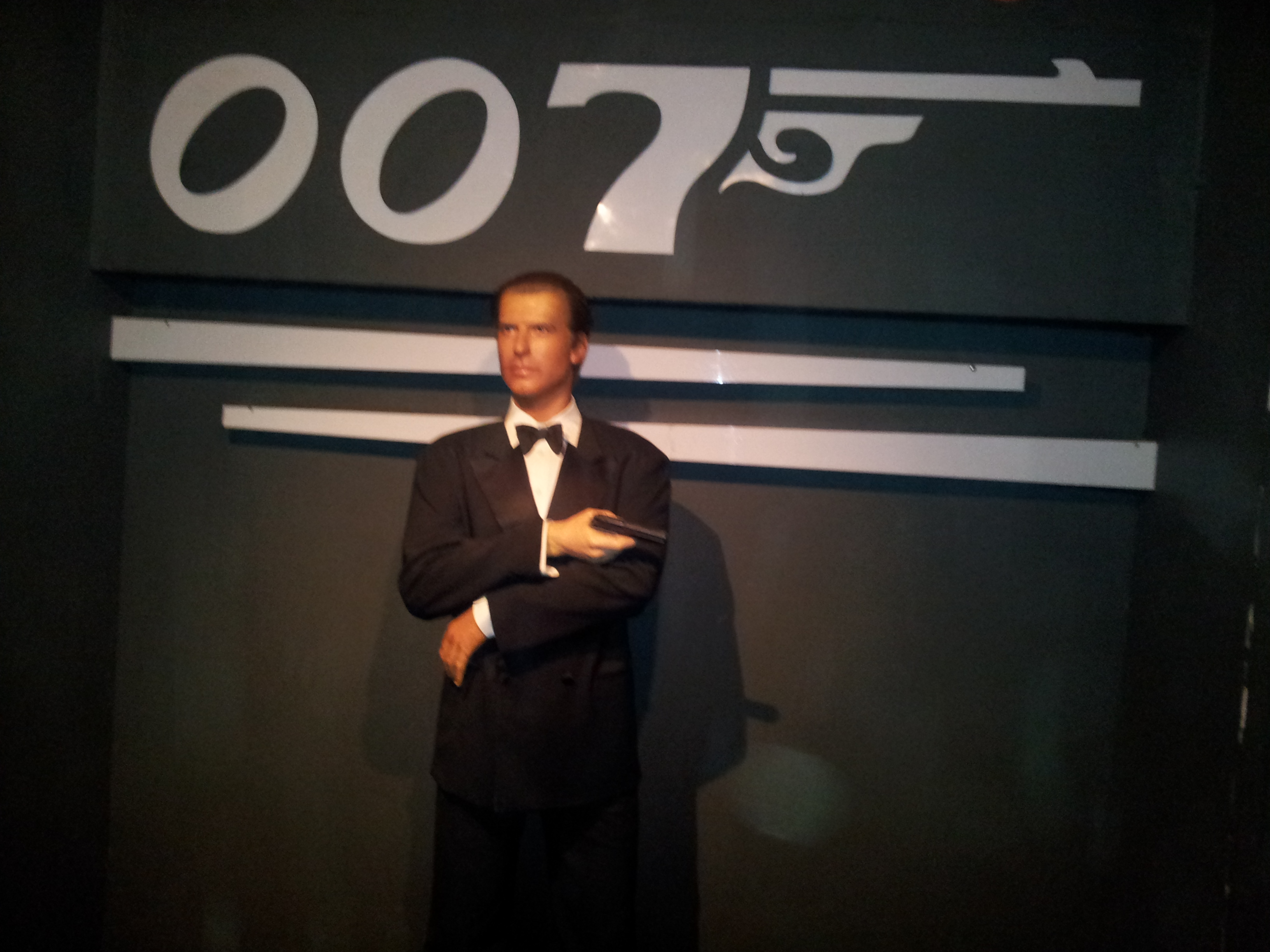 Snap from Wax Museum at Innovative Film city Bangalore